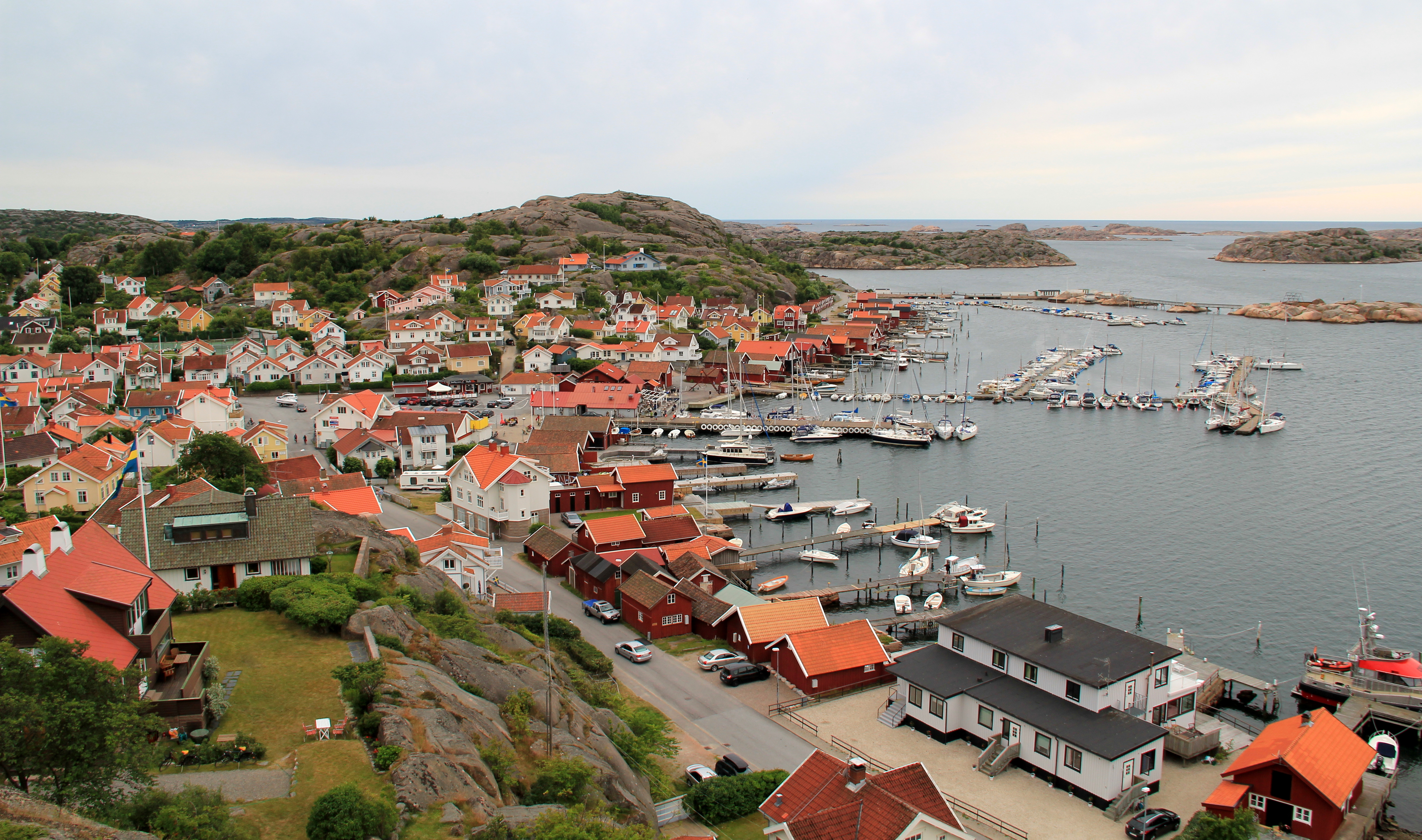 Bovallstrand with Bottnafjorden